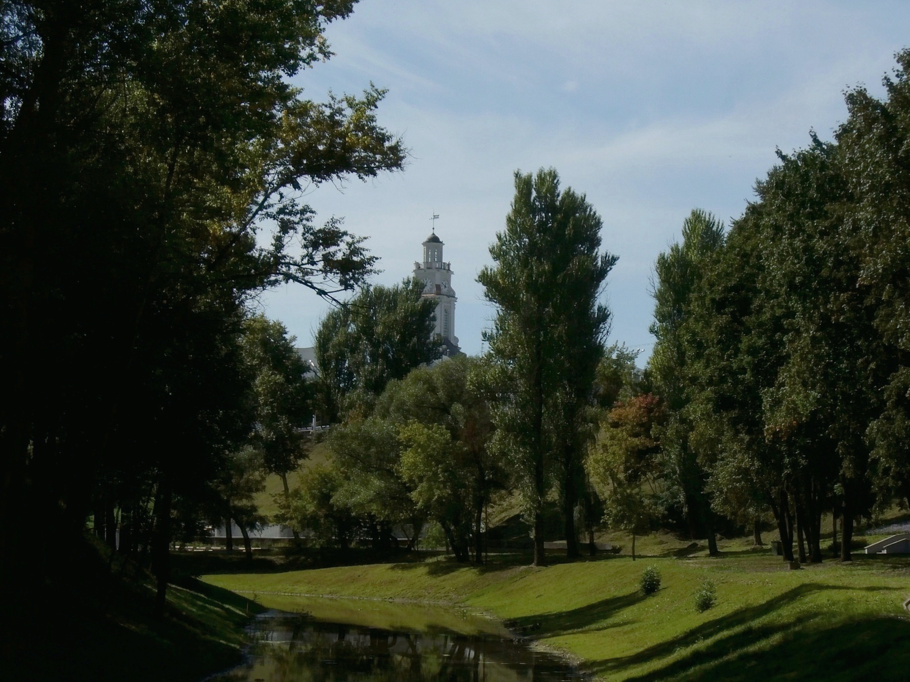 Vitebsk. Belarus.